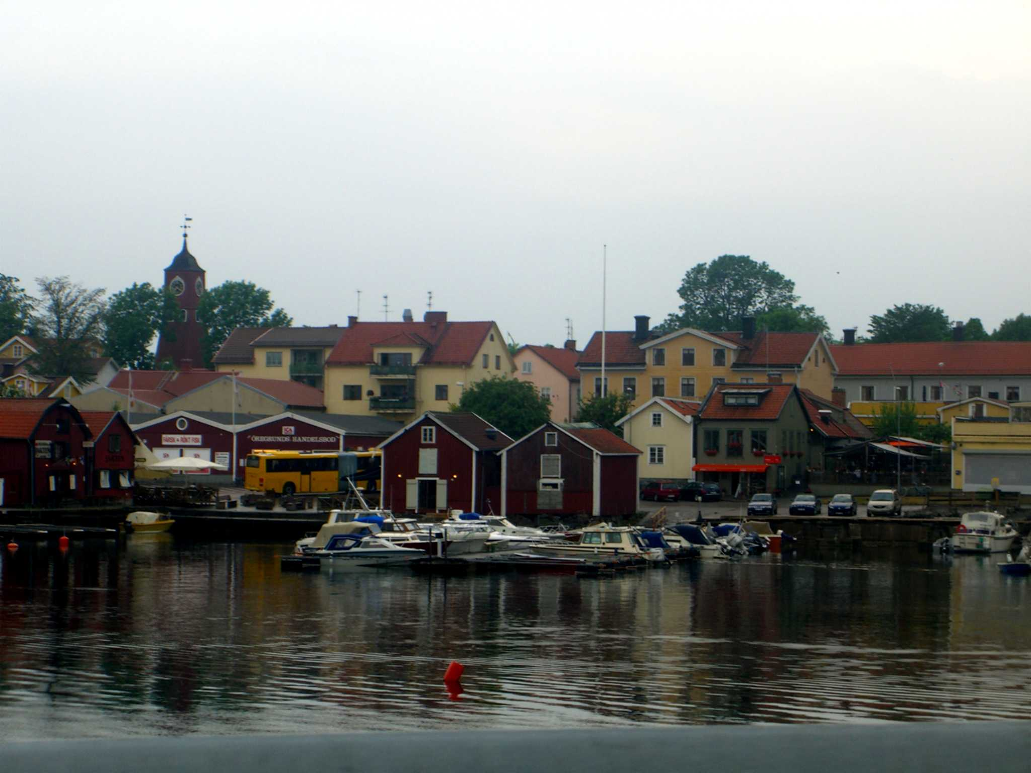 Öregrund inner harbour